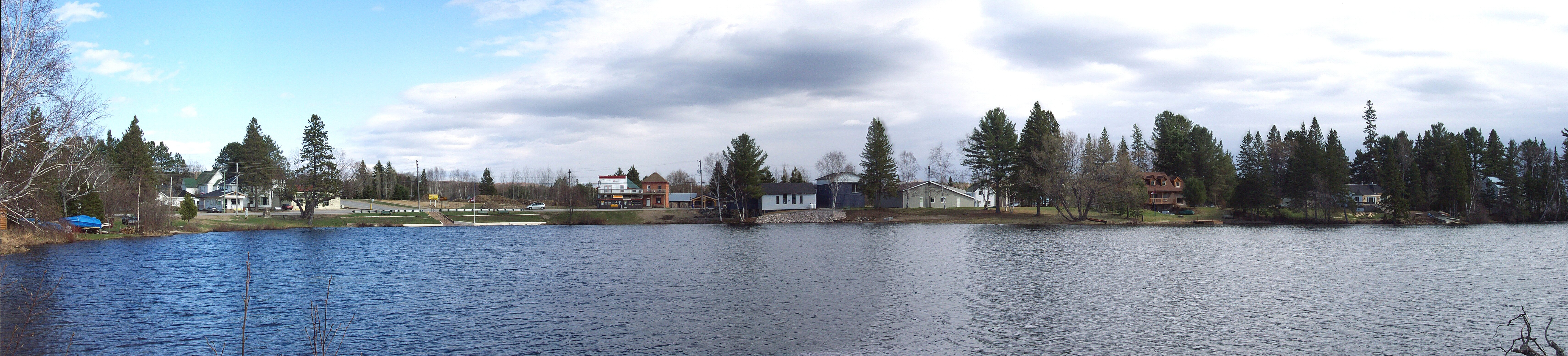 A stitched image taken from the same location as the black & white panoramic photo displayed in Kearney's community centre.